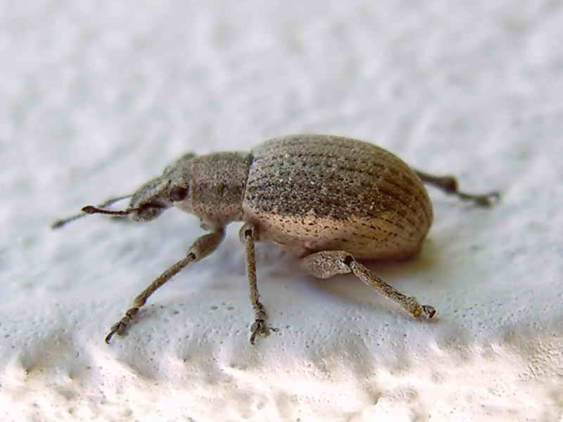 Foto tirada cunha Nikon E8800. Self made. Bastabales - Galicia - Spain. Attactagenus albinus (Boheman, 1833)